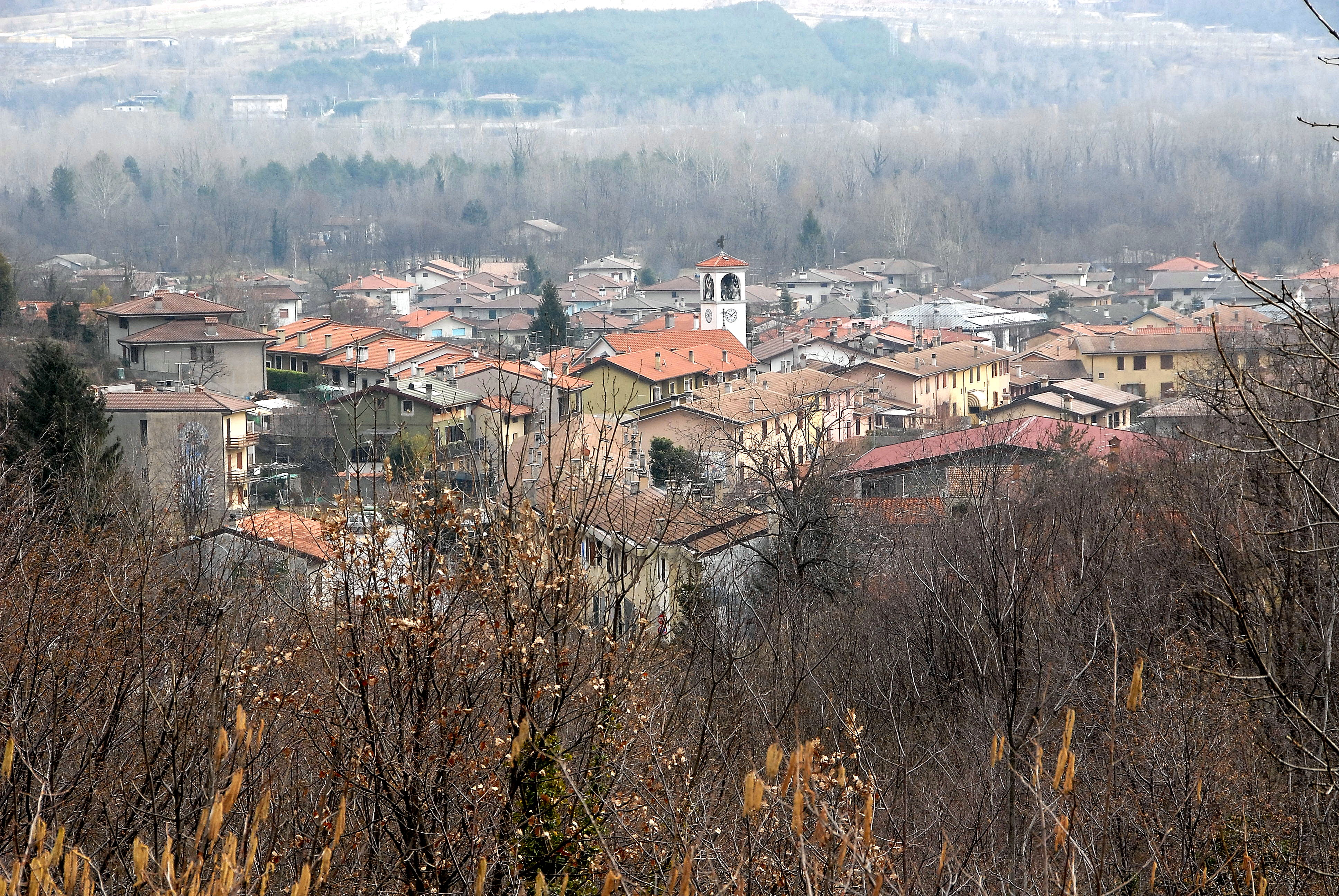 Community and village Bordano in the state Friuli-Venezia Giulia, Italy